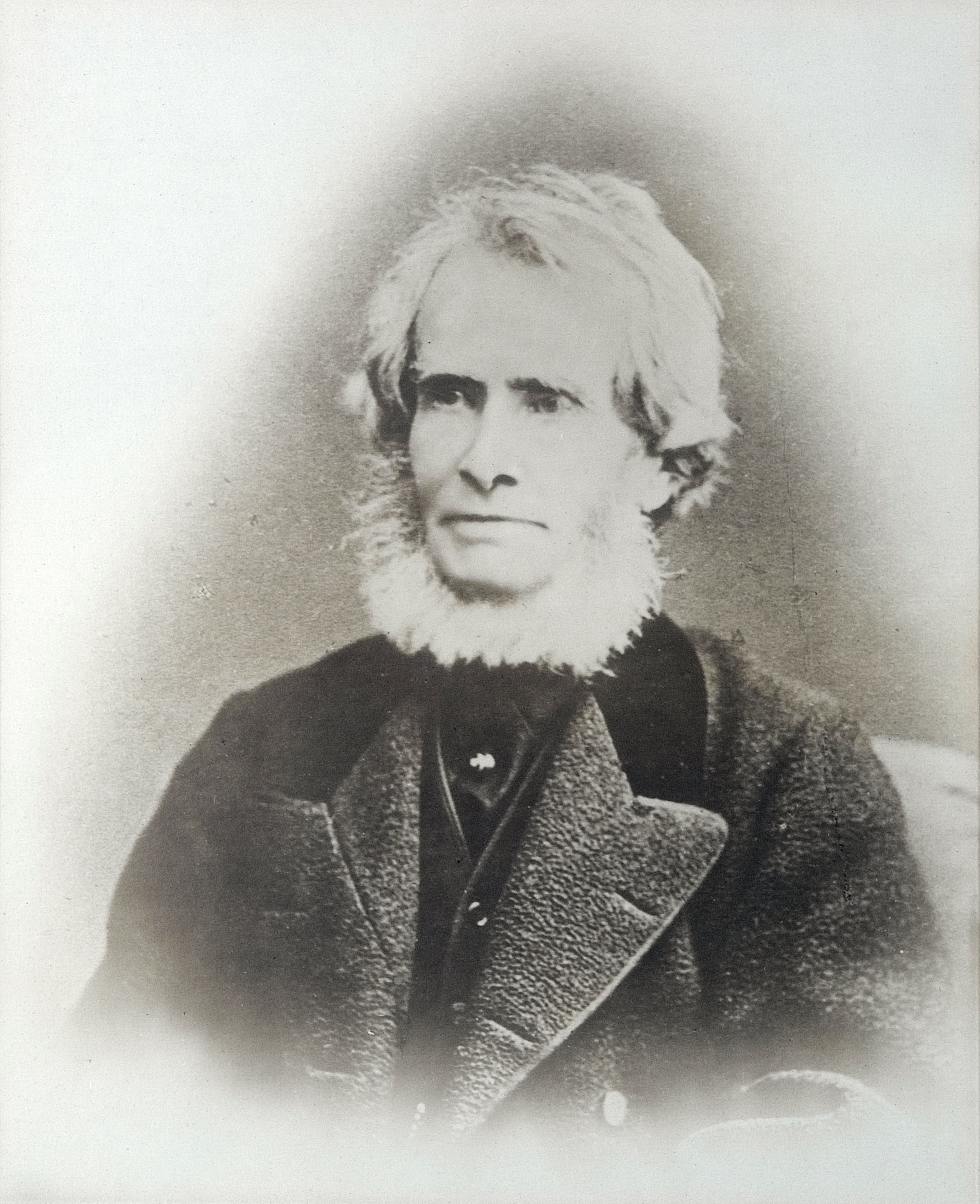 Photograph of Henry Richardson, first Mayor of Barnsley, South Yorkshire.